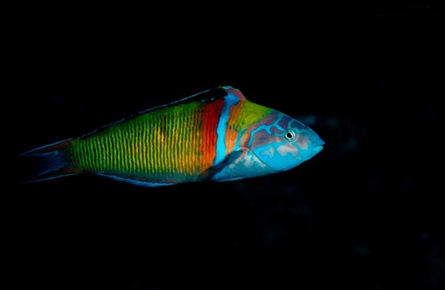 Thalassoma pavo photographed in Azores, Portugal.